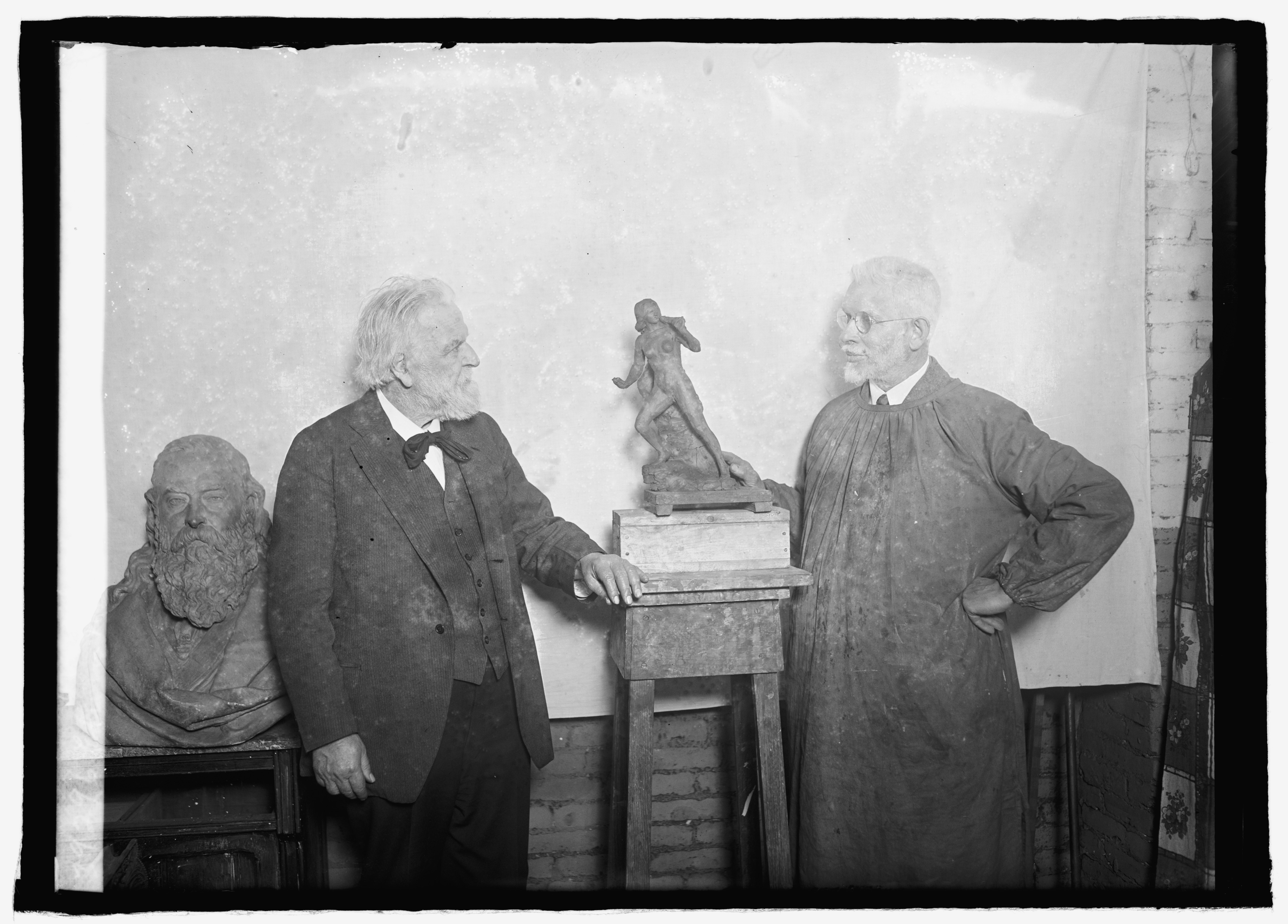 Title: Edwin Markham & Ulric Dunbar with "Virgila," 2/24/26 Abstract/medium: 1 negative : glass ; 5 x 7 in. or smaller